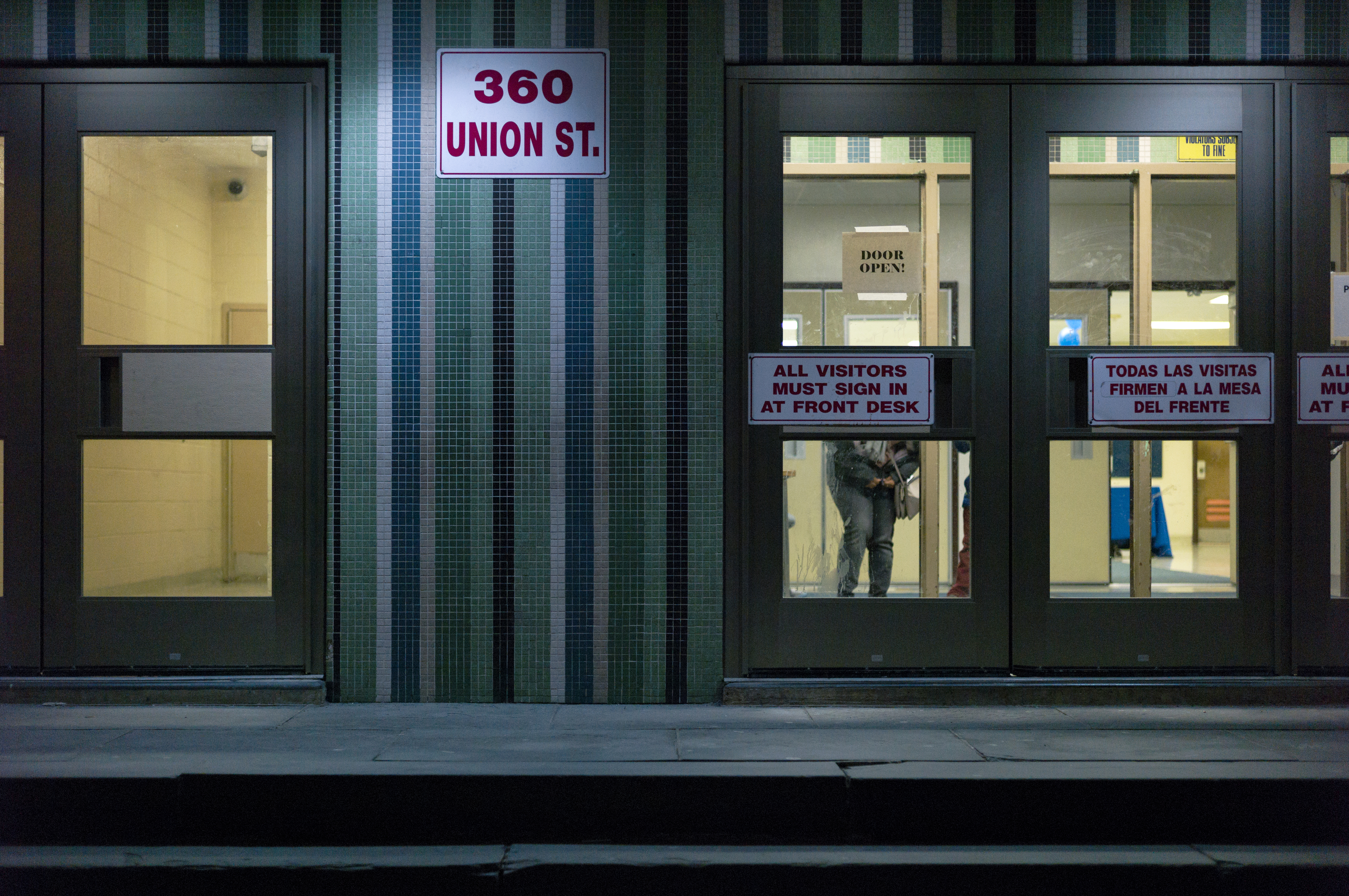 Hackensack Middle School, night capture